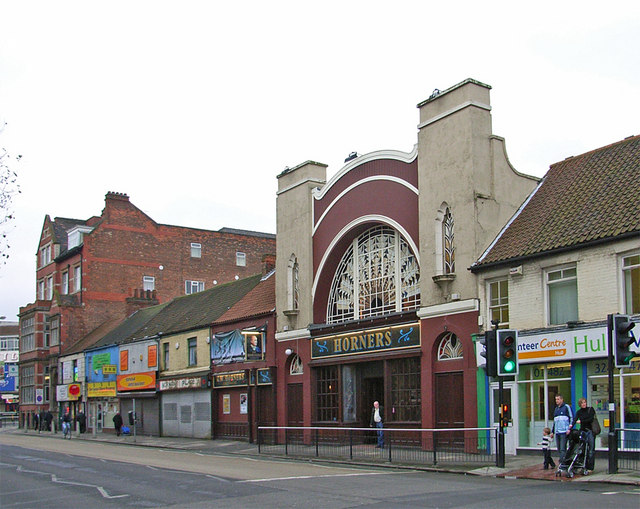 The Former Regent Cinema, Anlaby Road, Hull Pevsner says "..1910 by J.M.Dossor, was built in seven weeks and it shows. The towers are later additions." Now used as licensed premises. Information on says "The building that houses the present G W Horner’s public house first opened in 1910, as a cinema called the Kinemacolour Picture Palace. Built to the designs of the architect J M Dossor, the cinema was re-named the Regent in 1919, which it remained until closure in 1978. A change of use came in 1979 when it became the Arena Roller Disco; more recently the former cinema was converted into a public house, first known as the Prince Regent, with Gussy’s Bar attached and now G W Horner’s. The bar of the pub is situated in the former foyer of the cinema, the main hall to the rear having been demolished during redevelopment. G W Horner was a famous confectioner with a huge factory in Chester-Le-Street, where the first G W Horner’s public house is situated. The company opened its new venture in Hull in January 2006."